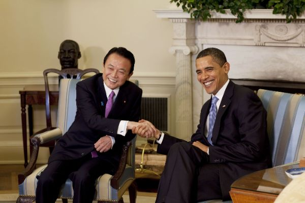 President Barack Obama meeting with Prime Minister Taro Aso of Japan in Oval Office.